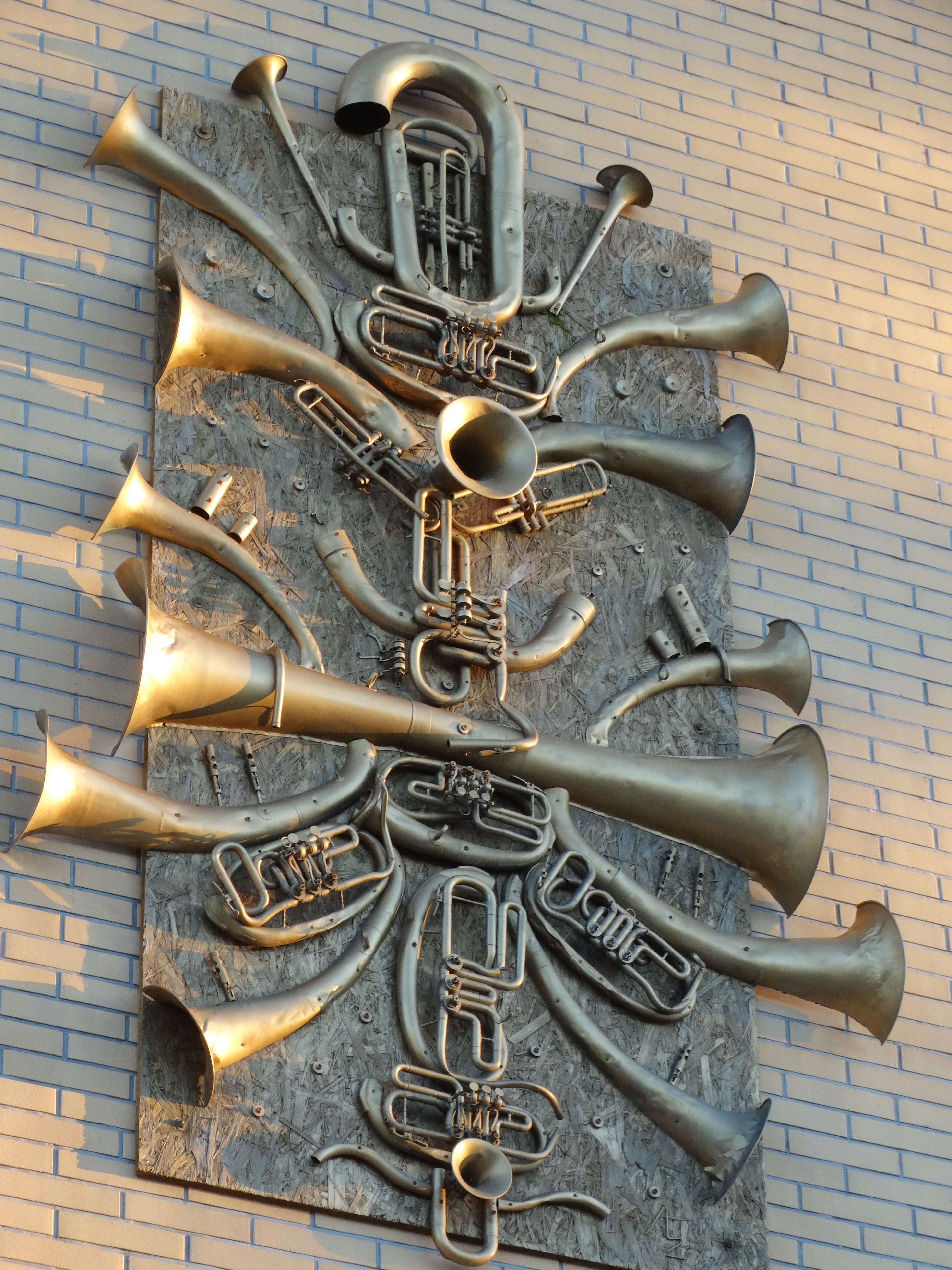 Art school, facade detail, Šilalė, Lithuania